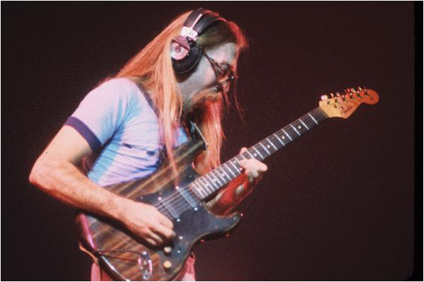 Jeff Skunk Baxter of the Doobie Brothers